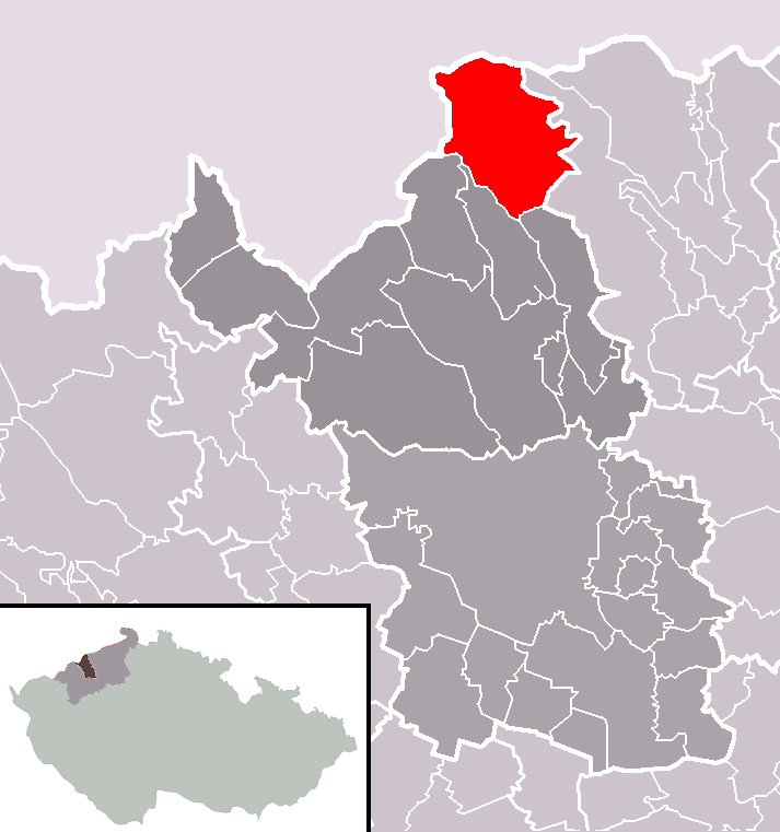 Location of Český Jiřetín municipality within Most District and administrative area of Litvínov as a Municipality with Extended Competence.